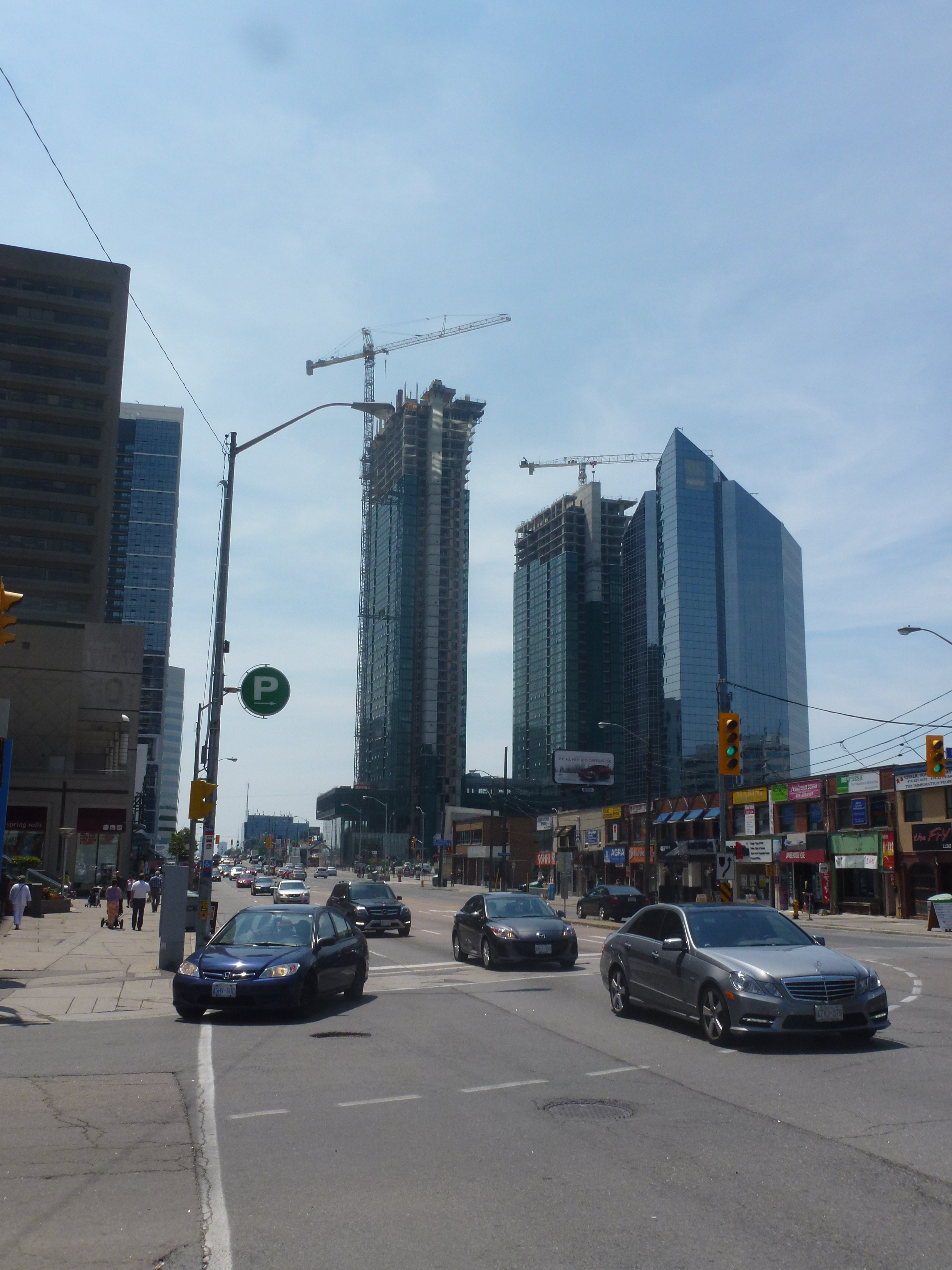 Construction near Sheppard and Yonge, 2014 06 28 (5).JPG